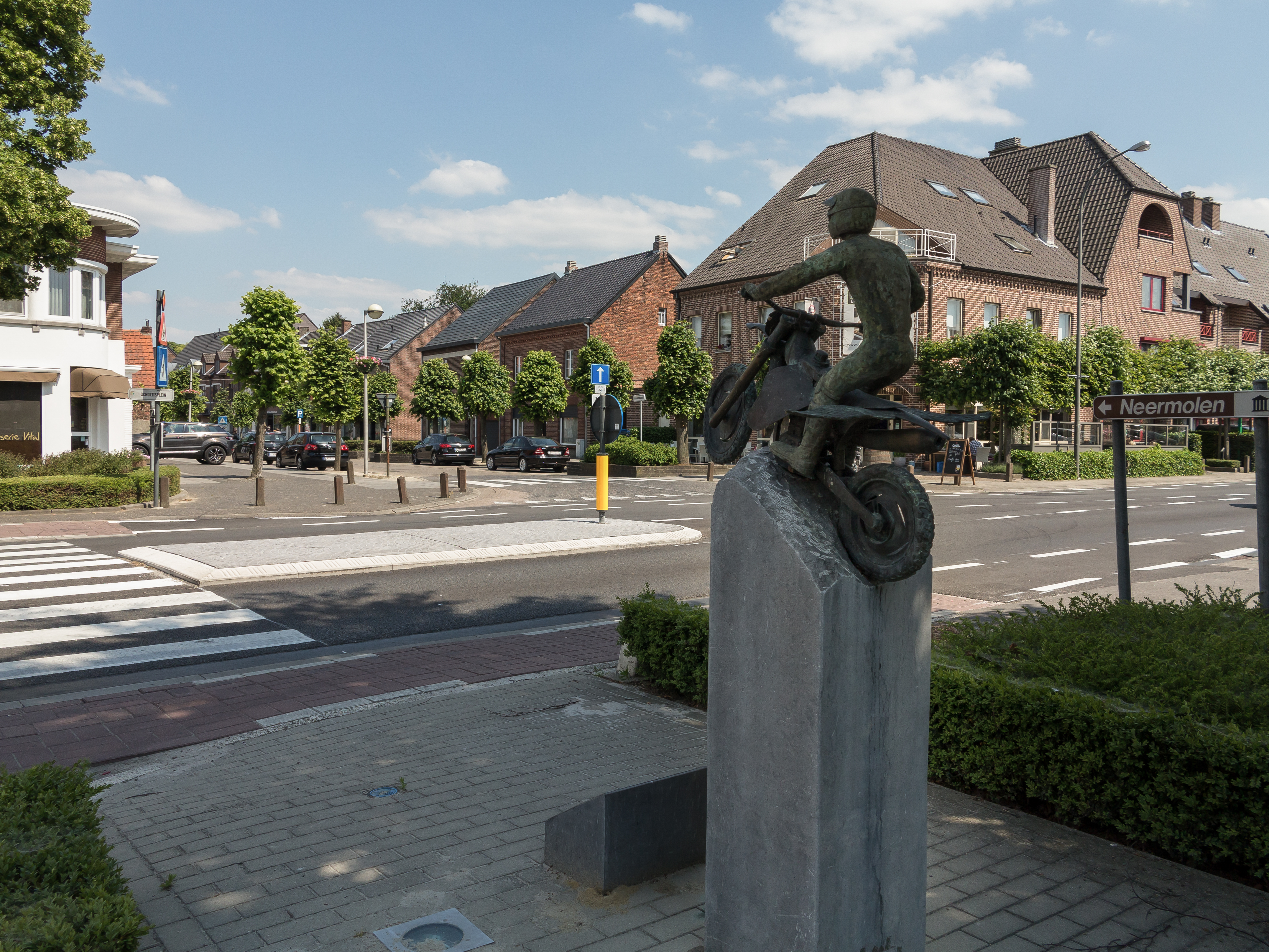 Neeroeteren, statue: Stefan Everts